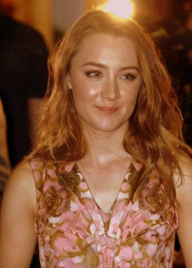 Saoirse Ronan at the premiere of Byzantium (2012) during the 2012 Toronto International Film Festival (TIFF) at the Ryerson Theatre on September 9, 2012 in Toronto, Canada.